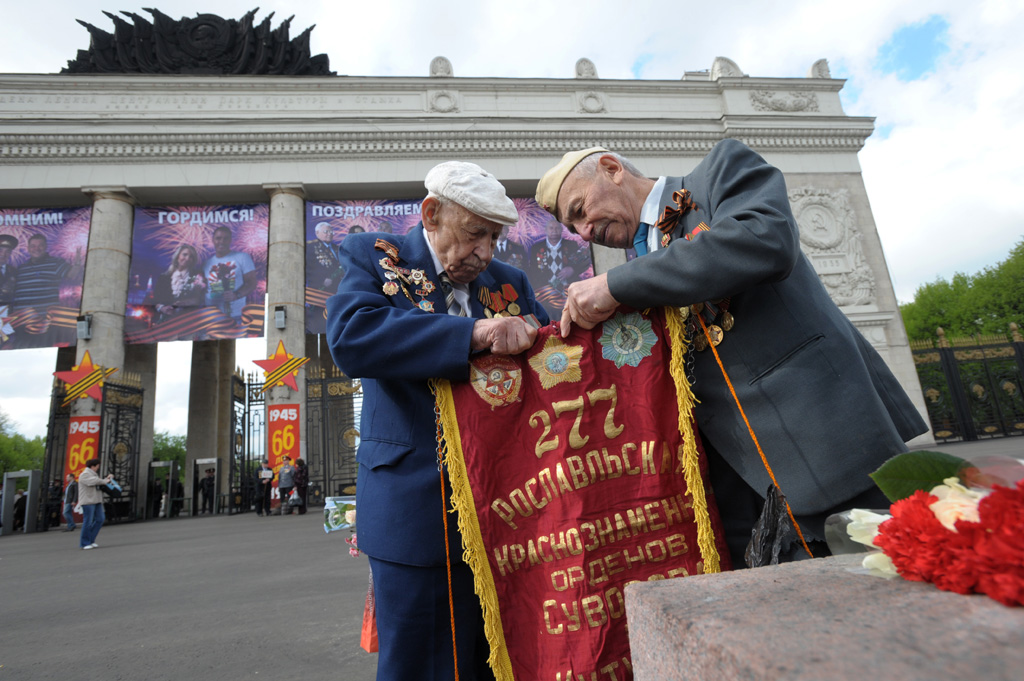 “May 9th holiday in Gorky Park”. World War II veterans Evgeny Ostroumov and Iosif Obugov (left-right) attached a pennant of his military unit to a tree near the entrance to Gorky Park (Central Park of Culture and Rest), where he attended celebrations to mark Victory Day.